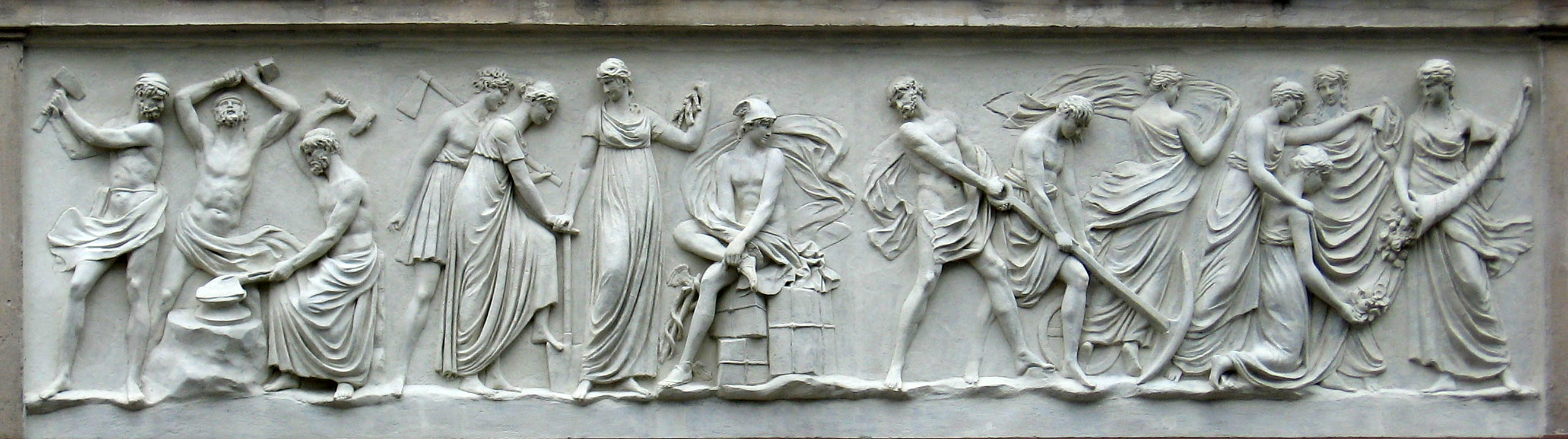 Kwidzyn, frieze from facade of Fermor's palace, 1802